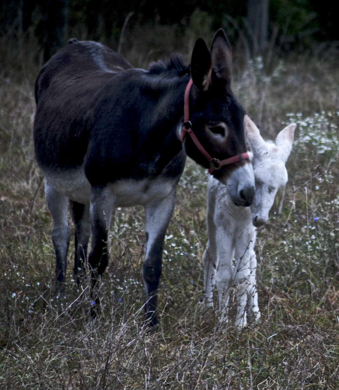 between on month and one day old